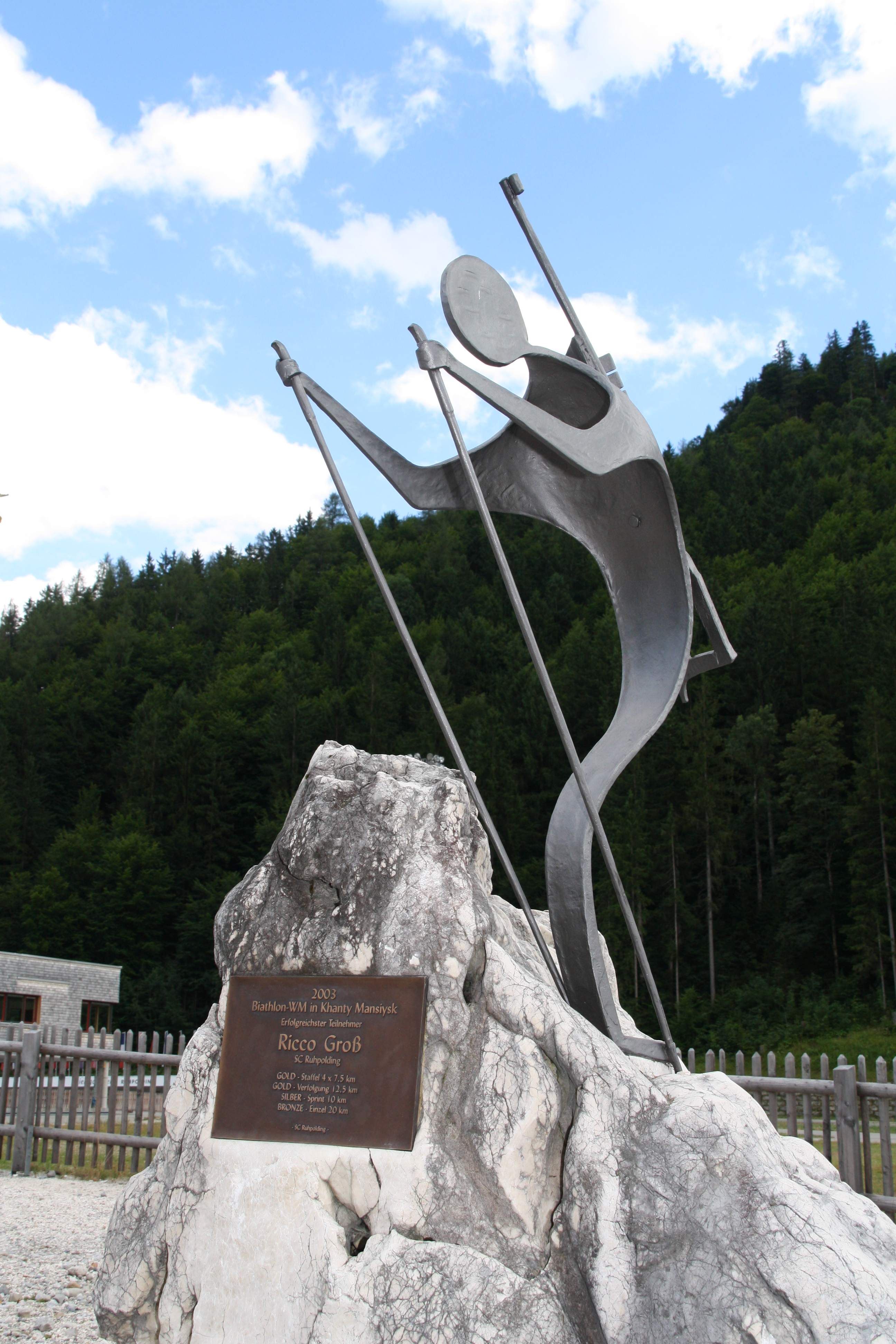 Sculpture for successful biathletes at Chiemgau-Arena Ruhpolding